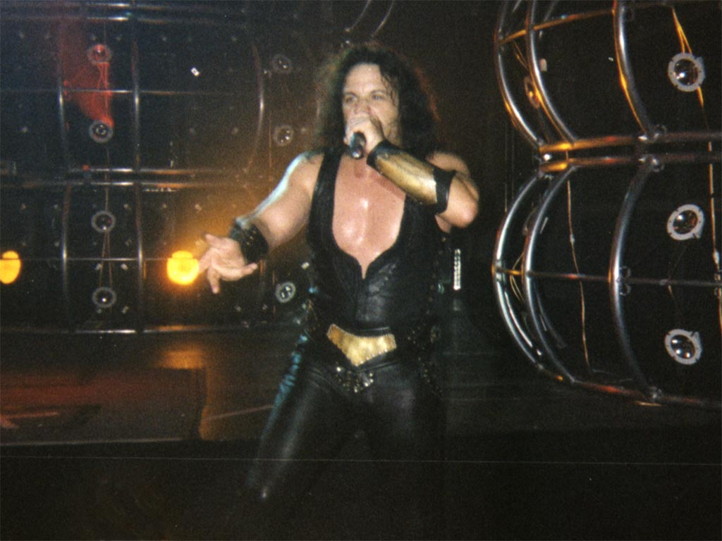 Eric Adams Manowar 2002 Bercy Paris live